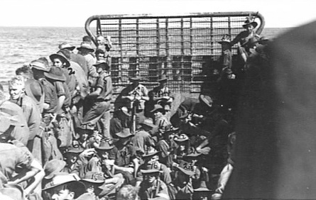 Troop traffic between Kelanoa and Sio is by landing craft mechanized (LCM). This LCM has 80 men of the 30th Infantry Battalion and their equipment on board.